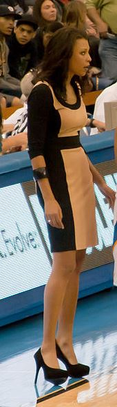 LSU Basketball Coach Nikki Caldwell